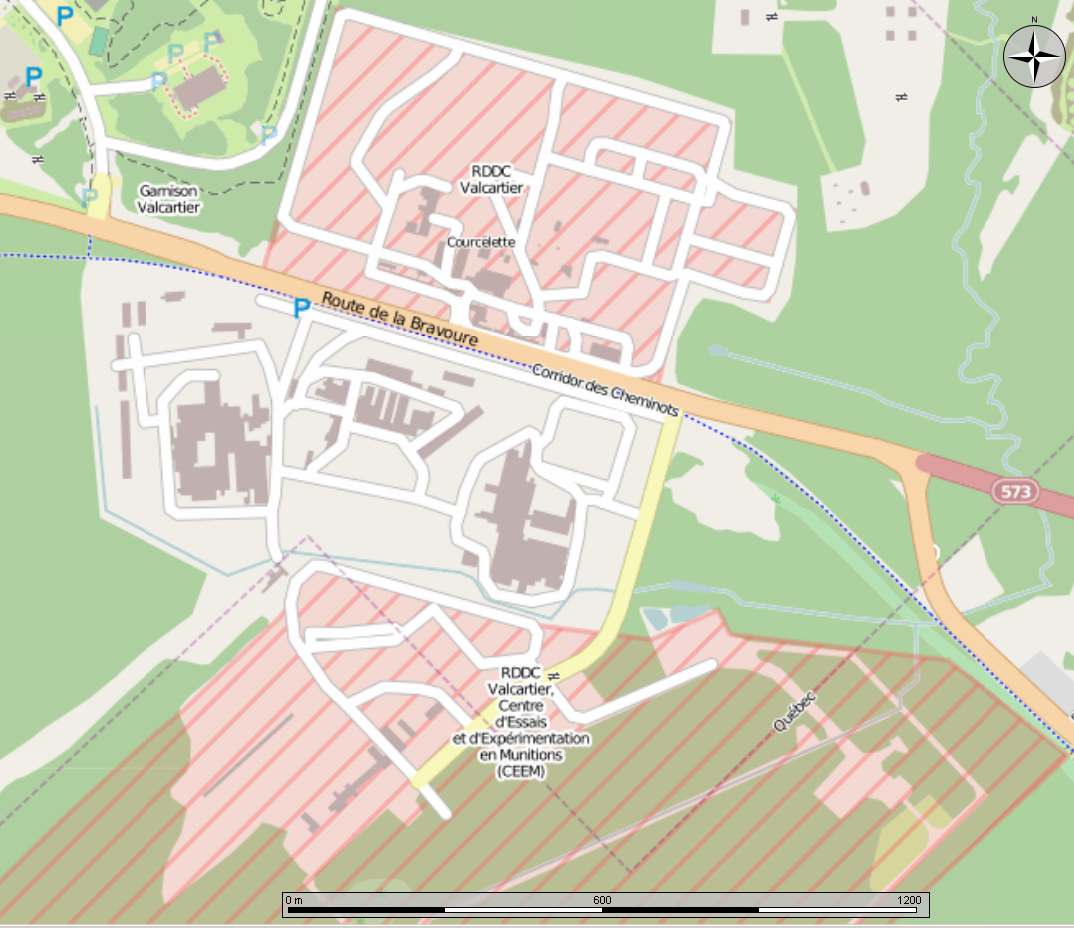 CFB Valcartier shown on an Open Street Map. Zoomed to show the main buildings. Self-made by the uploader with Marble and cropping with GIMP.